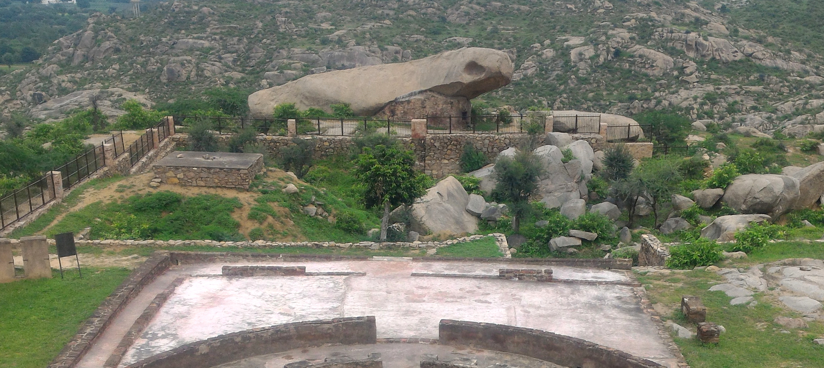 Bairat-Calcutta Edict discovery spot